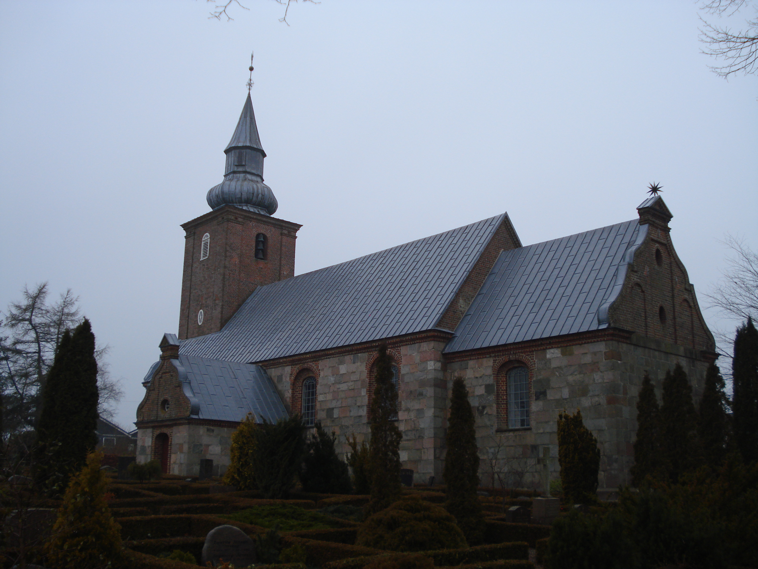 Granslev Kirke (Granslev Church), Jutland, Denmark